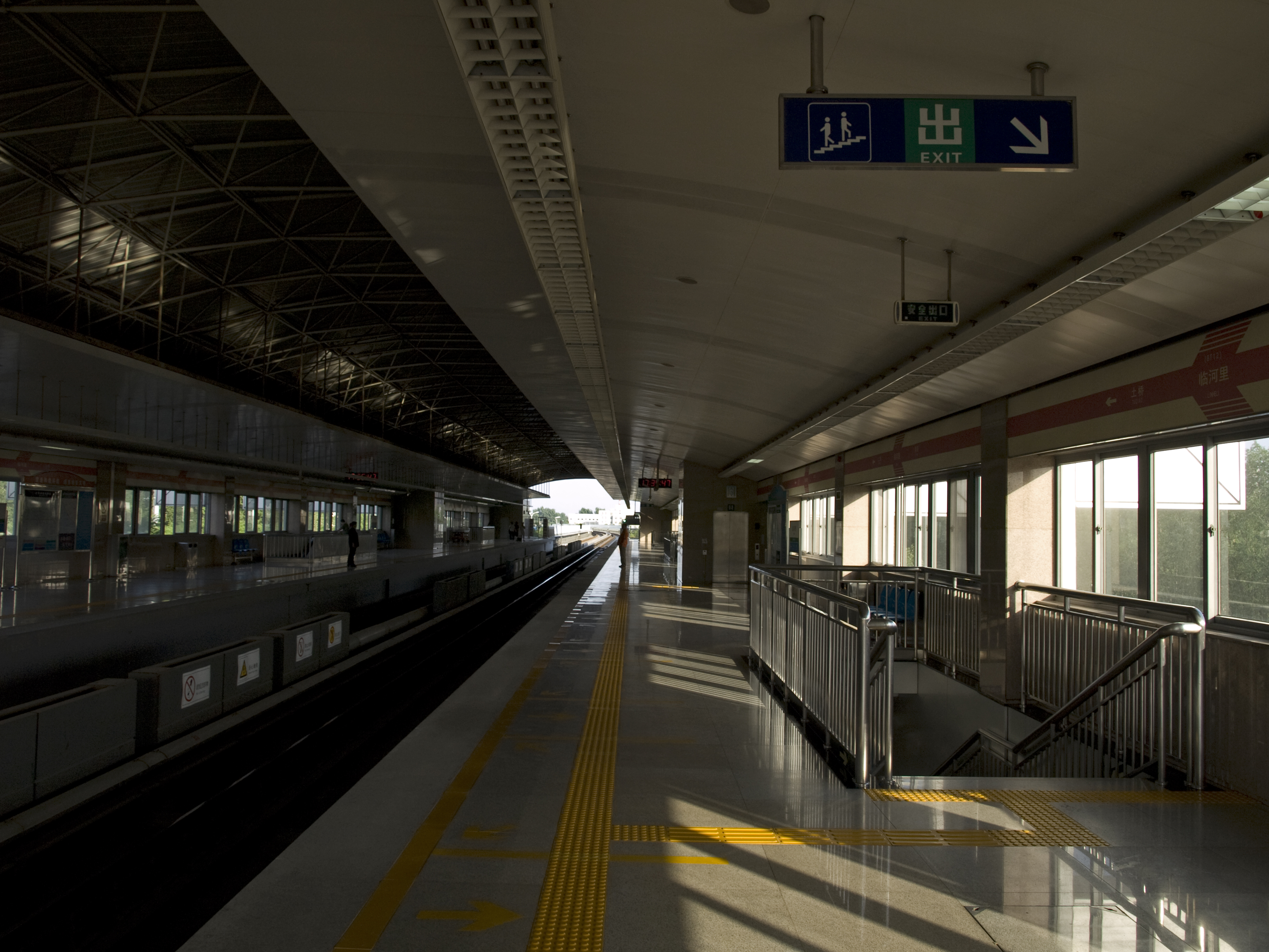 Linheli station, Beijing Subway